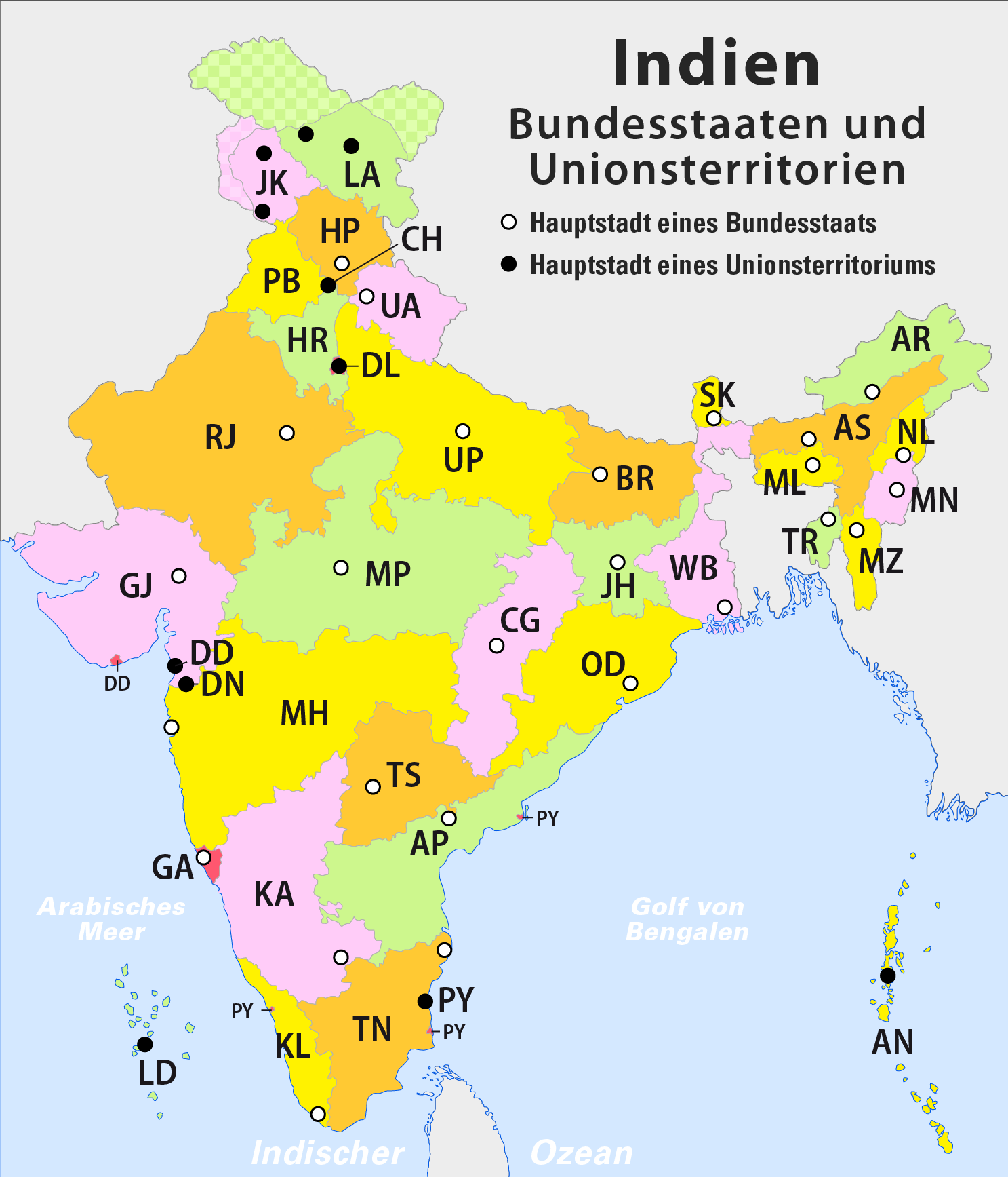 India with State Codes